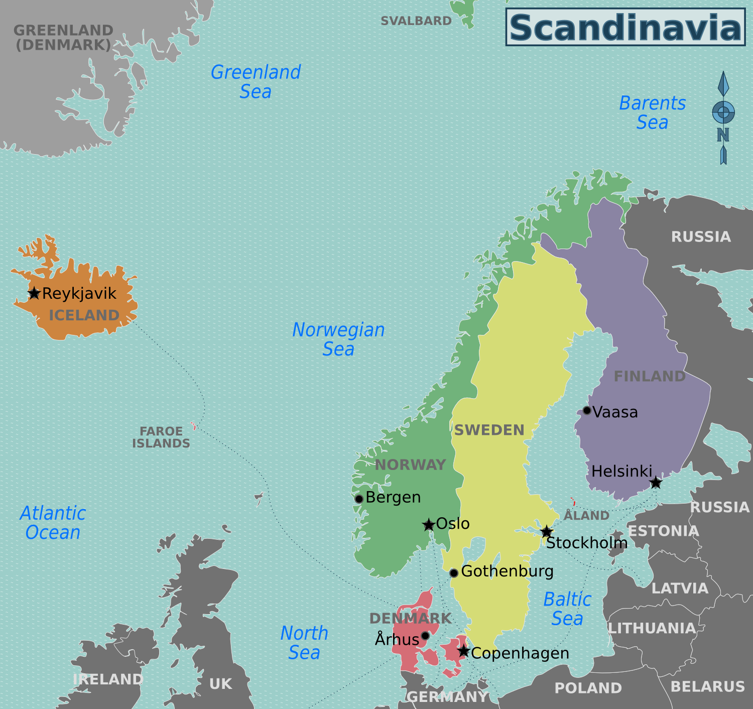 Travel regions of Scandinavia, English version